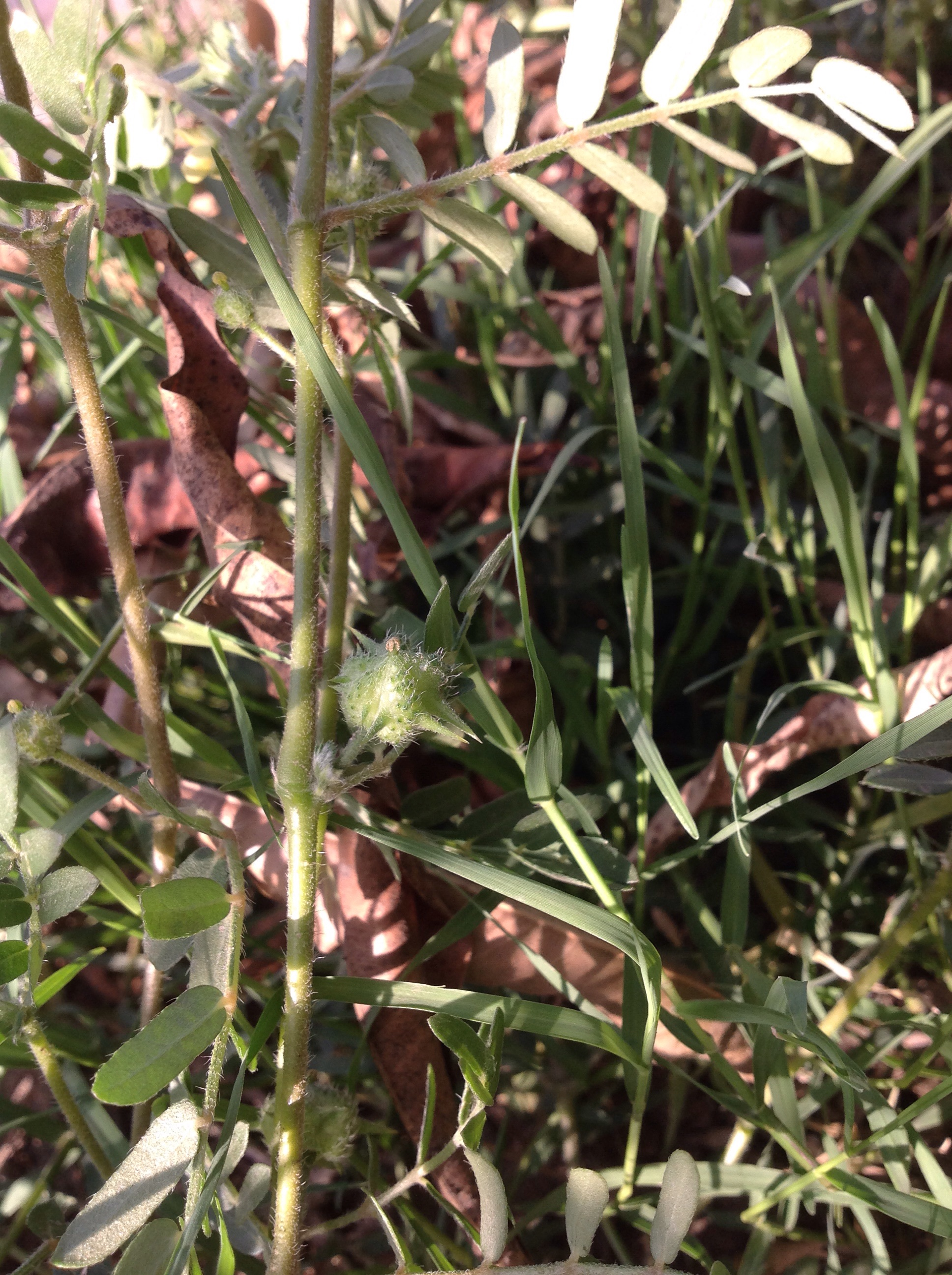 Thorny fruit of Tribulus is hidden in common grass ਪੰਜਾਬੀ: ਭੱਖੜੇ ਦਾ ਕੰਡੇਦਾਰ ਫ਼ਲ ਘਾਹ ਵਿੱਚ ਦਿਖਾਈ ਦੇ ਰਿਹਾ ਹੈ।